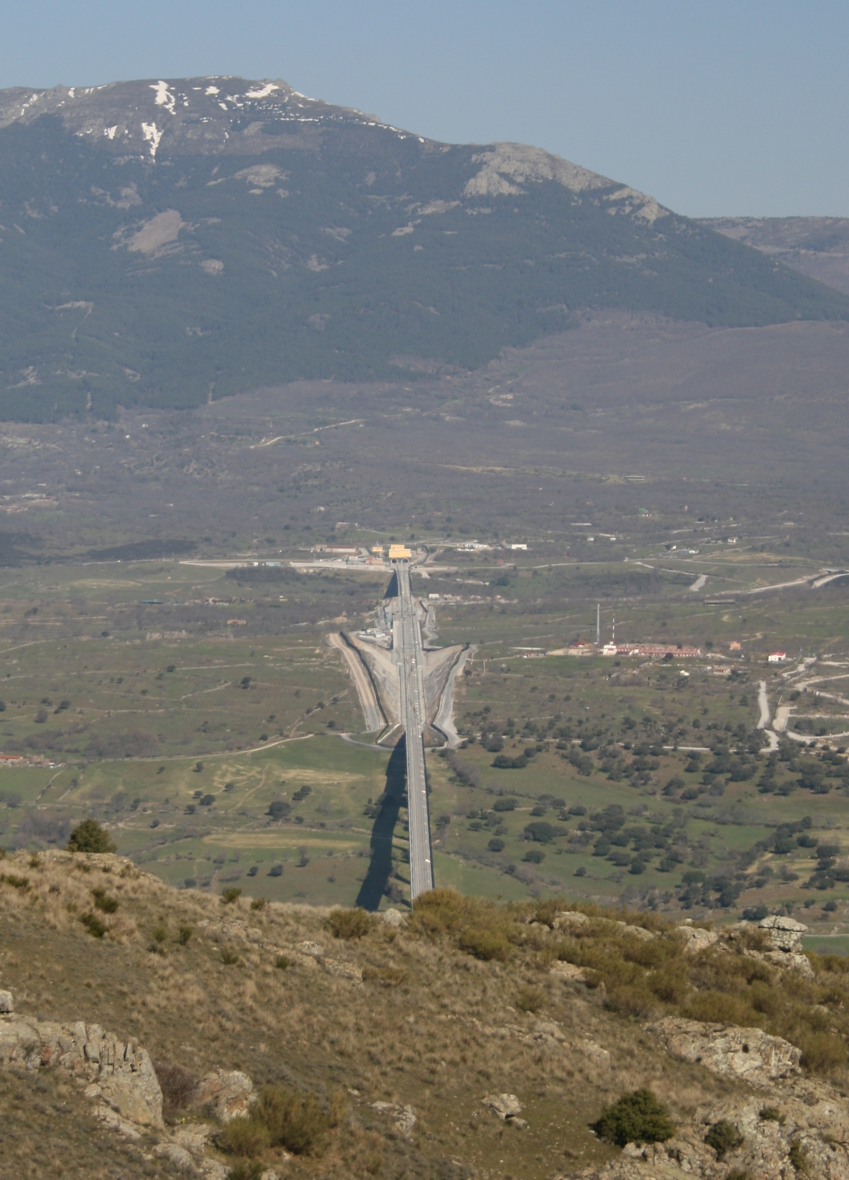 Railway in the exit of the tunnel through the San Pedro peak for the high speed train. Colmenar Viejo, Madrid, Spain.